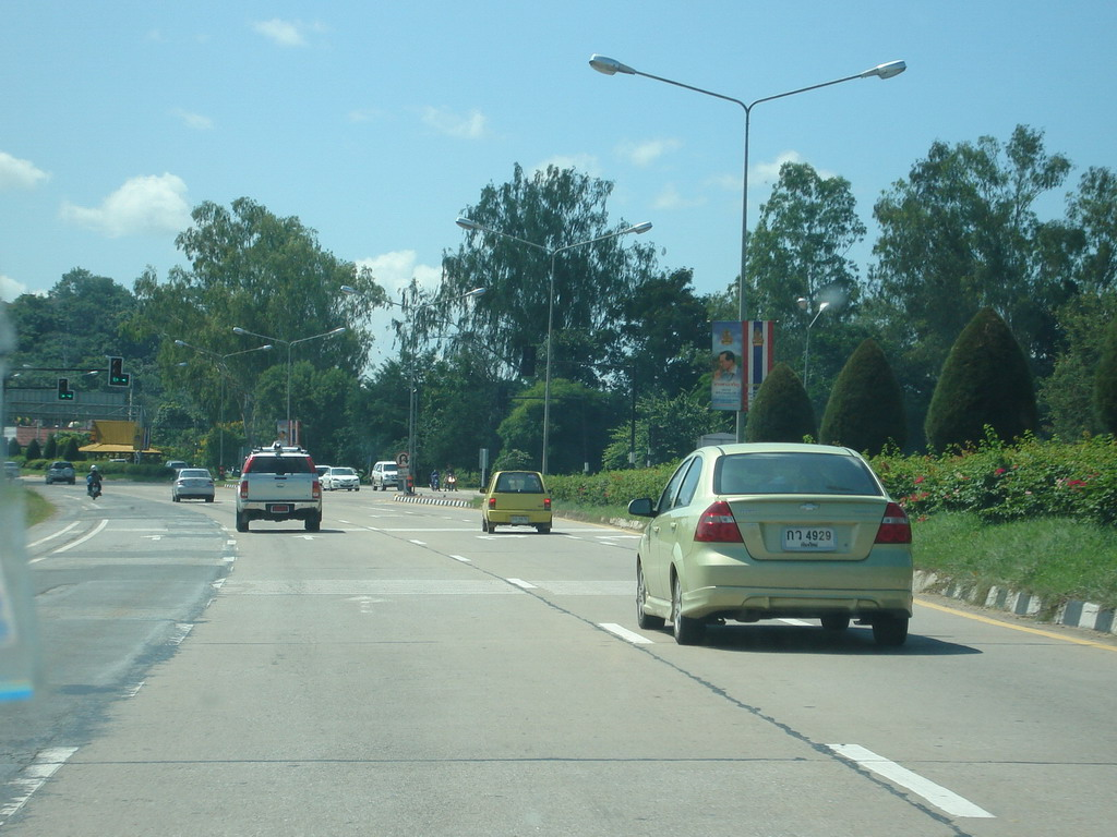 Doi Ti junction in Lamphun